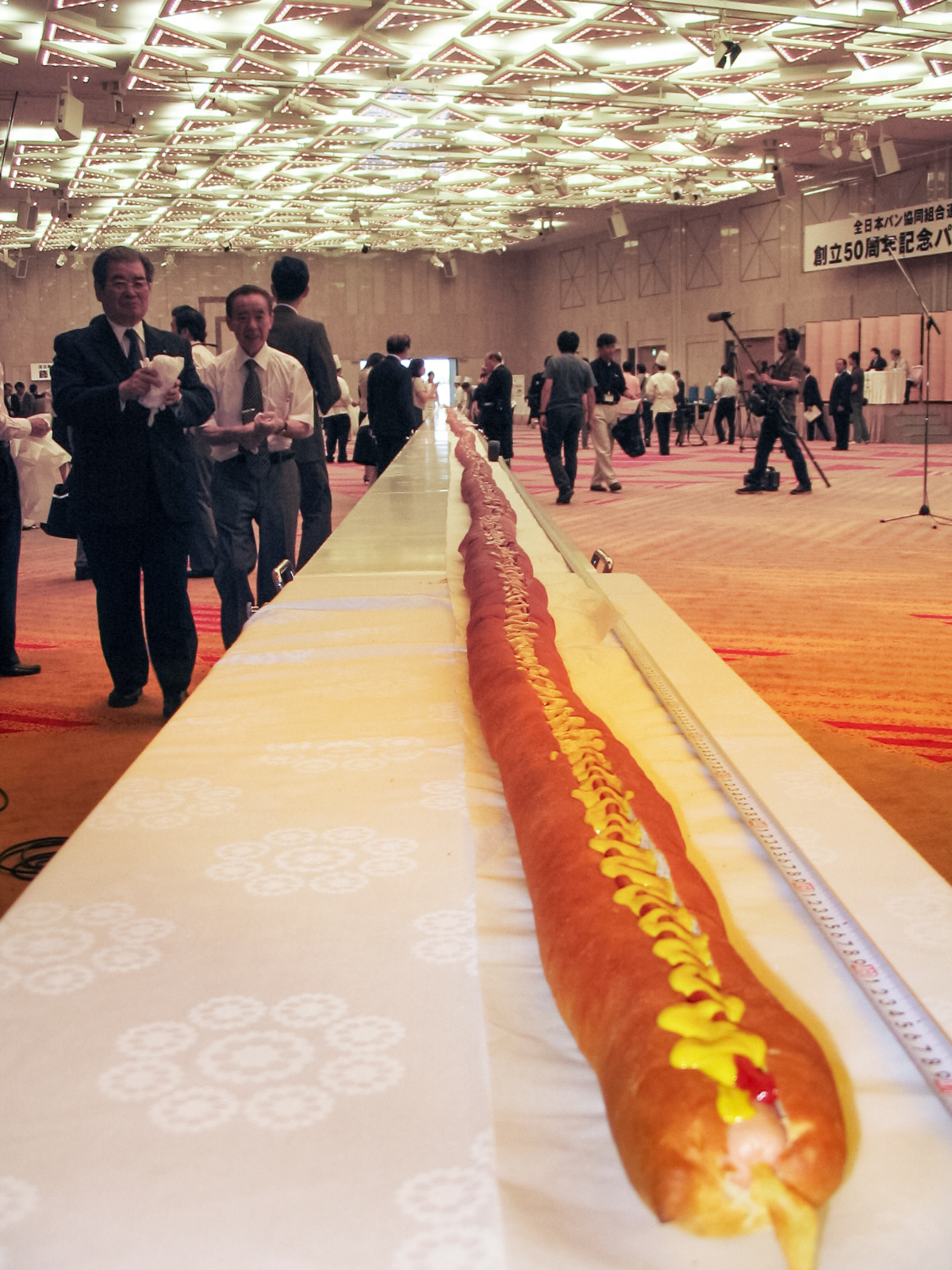 taken by Tim Lindenschmidt at the All-Japan Bread Association's 50th Anniversary Celebrations at the Akasaka Prince Hotel, Akasaka, Tokyo, Japan, on August 4, 2006. Depicts the world's longest hot dog, at 60.3m, in the ballroom at the Akasaka Prince Hotel.